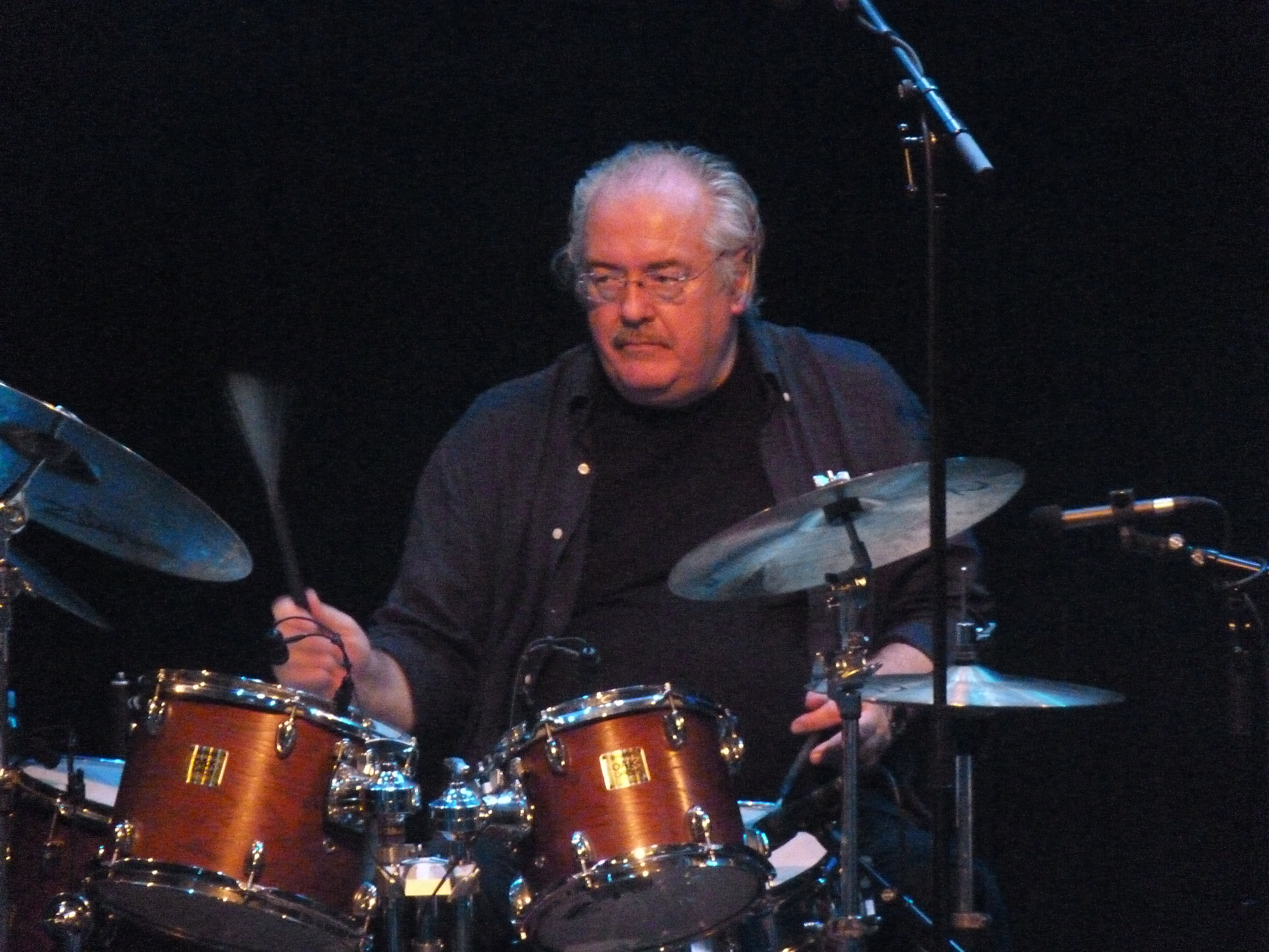 Live on the 5th of December, 2014. Kex Remake (band). Budapest, MOM Cultural Center. Kex band (1969 - 1971) remake koncert. Kisfaludy András (former member of Kex): Our aim was to preserve the heritage of the Kex band.